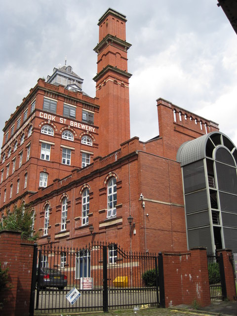 Cook Street Brewery A noble landmark on the Salford skyline, the former Cook Street Brewery, grade II listed buildings survive as a residential conversion. Dated 1896, designed by WA Deighton for Threlfall's Brewery Company Ltd. Built of red brick with Welsh slate roofs and including a fine brick tower with lettering at high level 'THRELFALL'S BREWERY COMPY LD COOK ST. BREWERY'. Acquired by Whitbread in 1967, brewing ceased 1988.